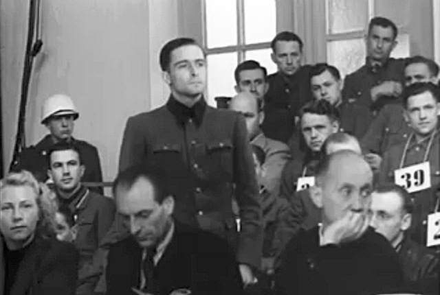 Joachim Peiper (1915-1976), Malmedy massacre War Crimes Trial